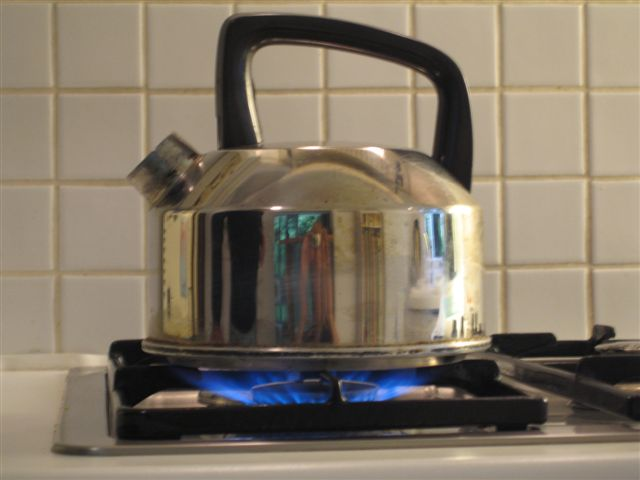 Transfer of heat to water kettle